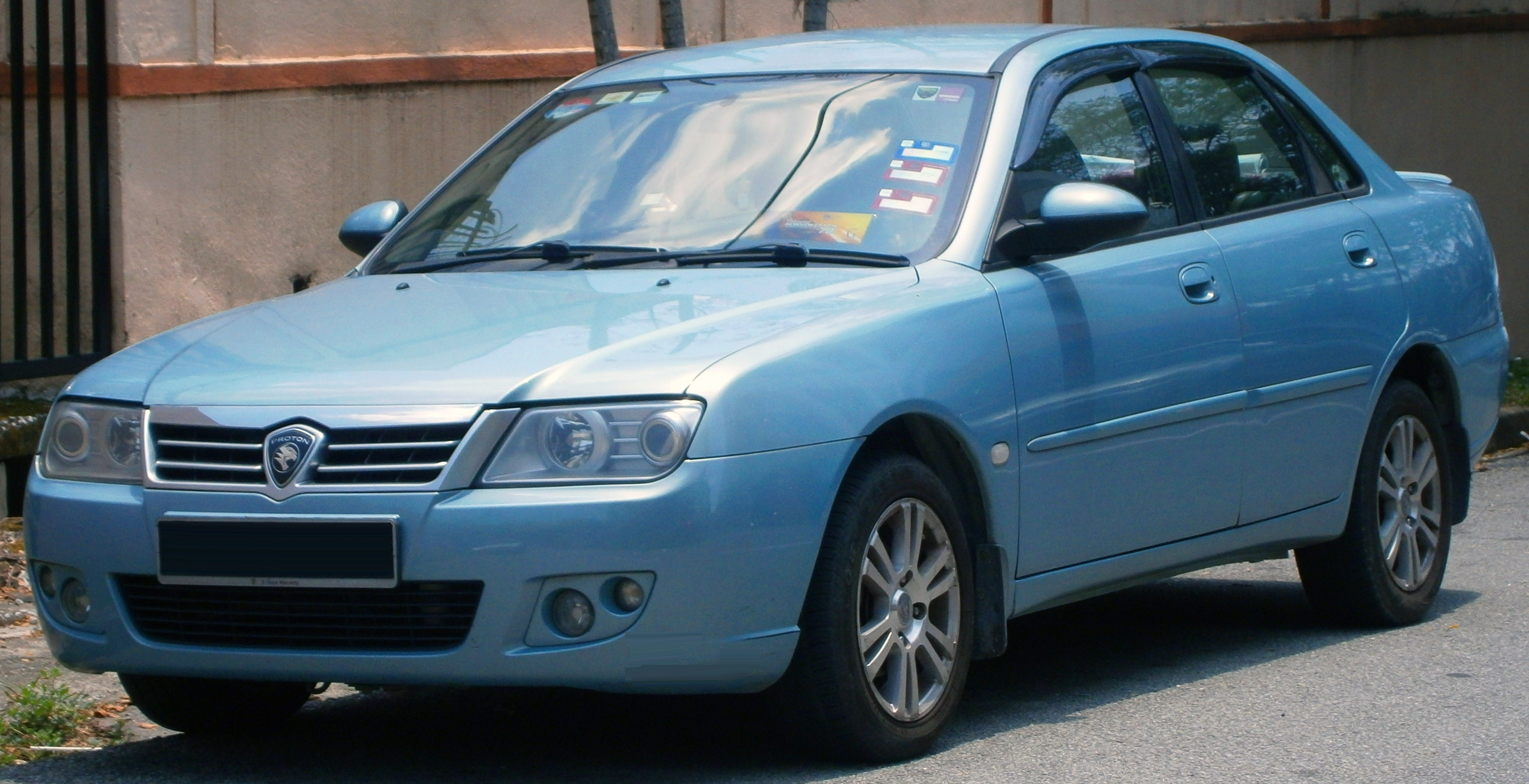 2009 Proton Waja CPS 1.6 Premium in Petaling Jaya, Malaysia. Colour : Blue Agate Designed & Assembled in Malaysia